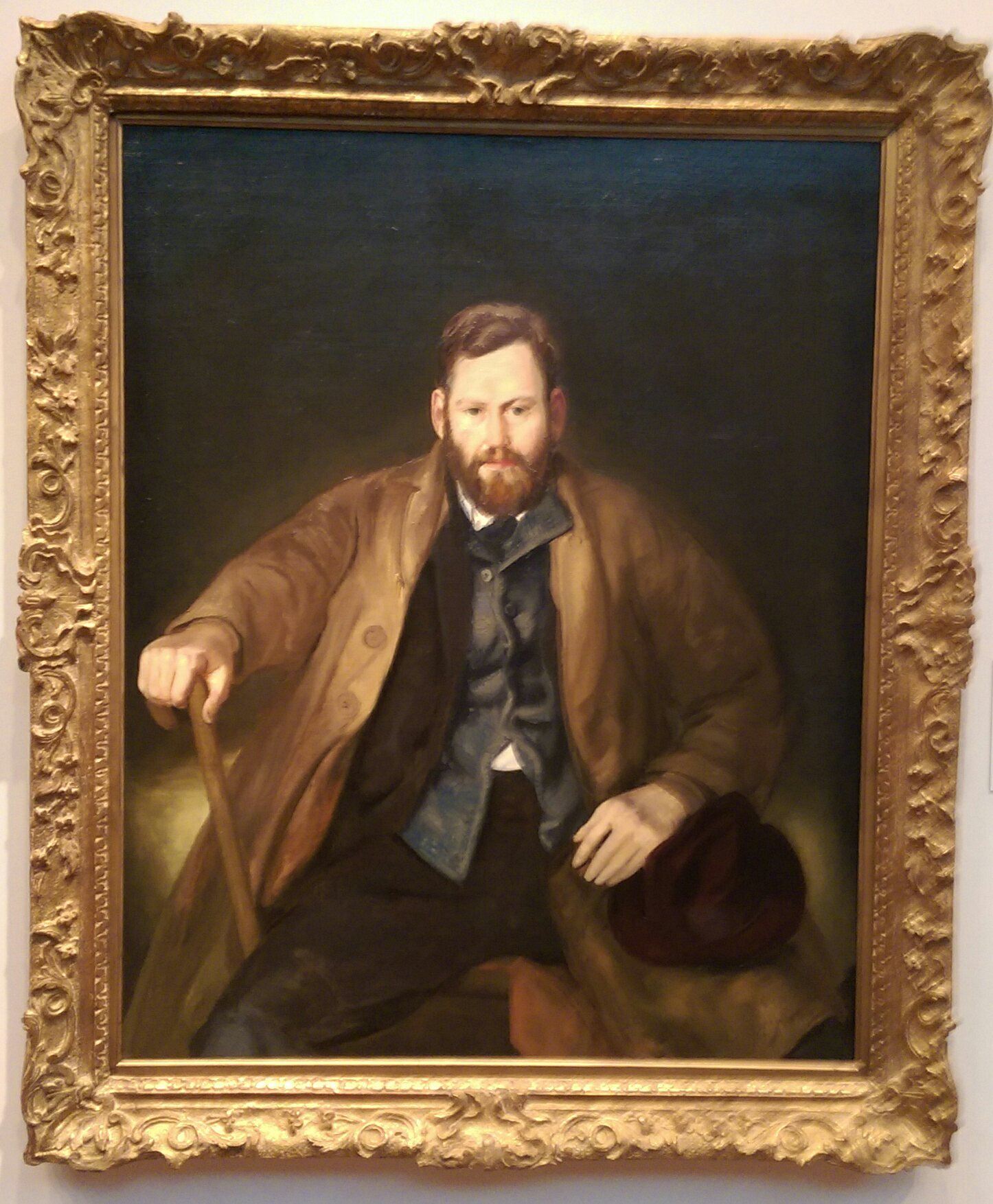 A portrait painting of Waldo Peirce, by George Wesley Bellows, on display at the de Young Museum in San Francisco. Photo by Jim Heaphy.